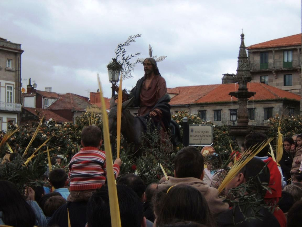 Palm Sunday in Pontevedra, next to the convent of St. Francis (convento de San Francisco)